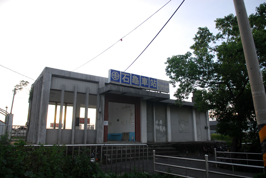 ShihGuei Station is a small local train station of Taiwan's Western main rail line. It's located within the boundary of DouNan Town, YunLin County.